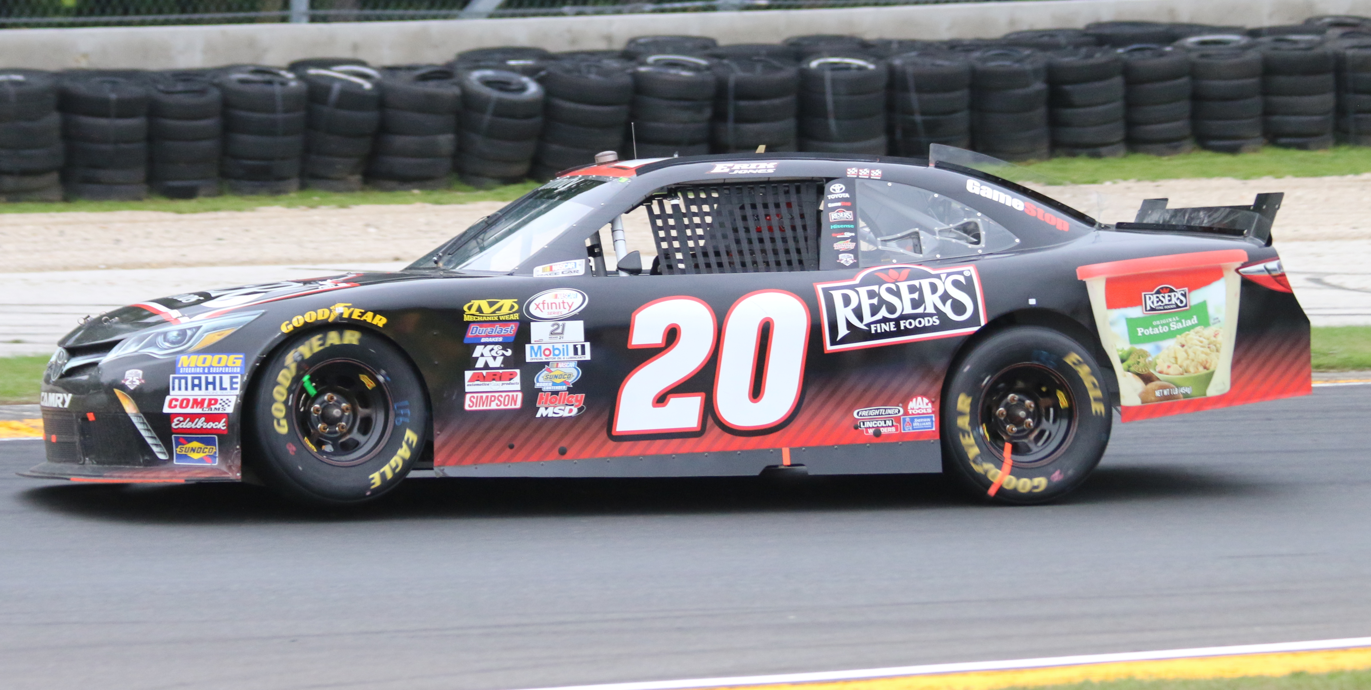 The Toyota Camry of Erik Jones at the NASCAR Xfinity Series Road America 180.